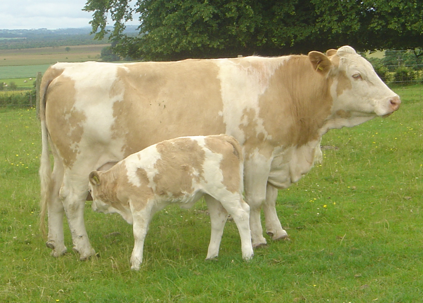 A cow with a calf.